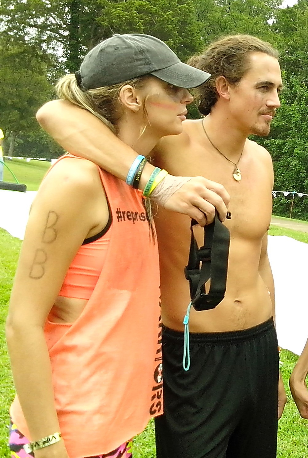 Sierra Dawn Thomas (left) and Joe Anglim (right)